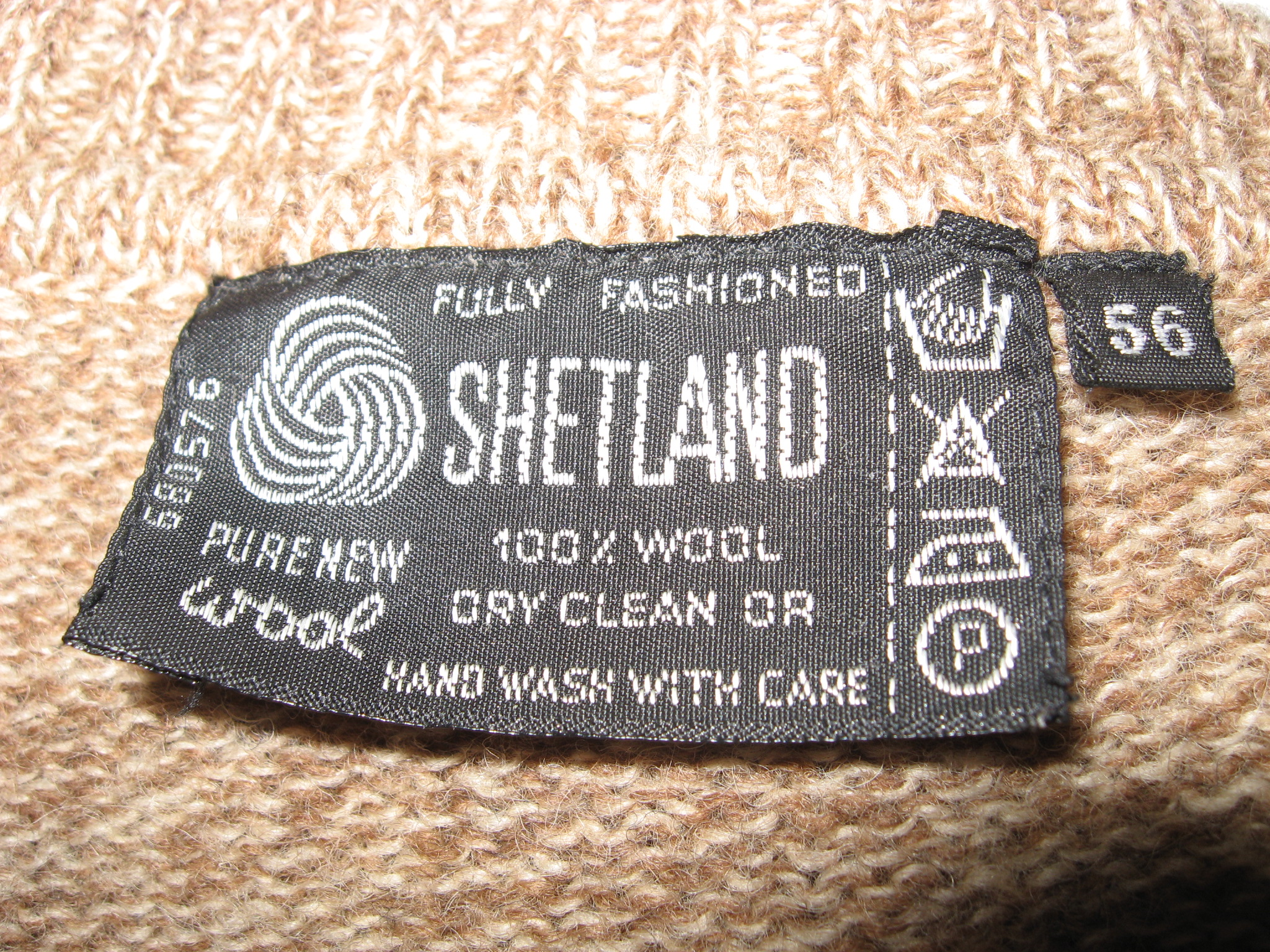 Label with care symbols on a wool sweater